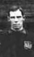 Andy Clarke while with Leeds City 1906/07